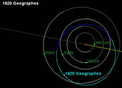 The orbit of 1620 Geographos